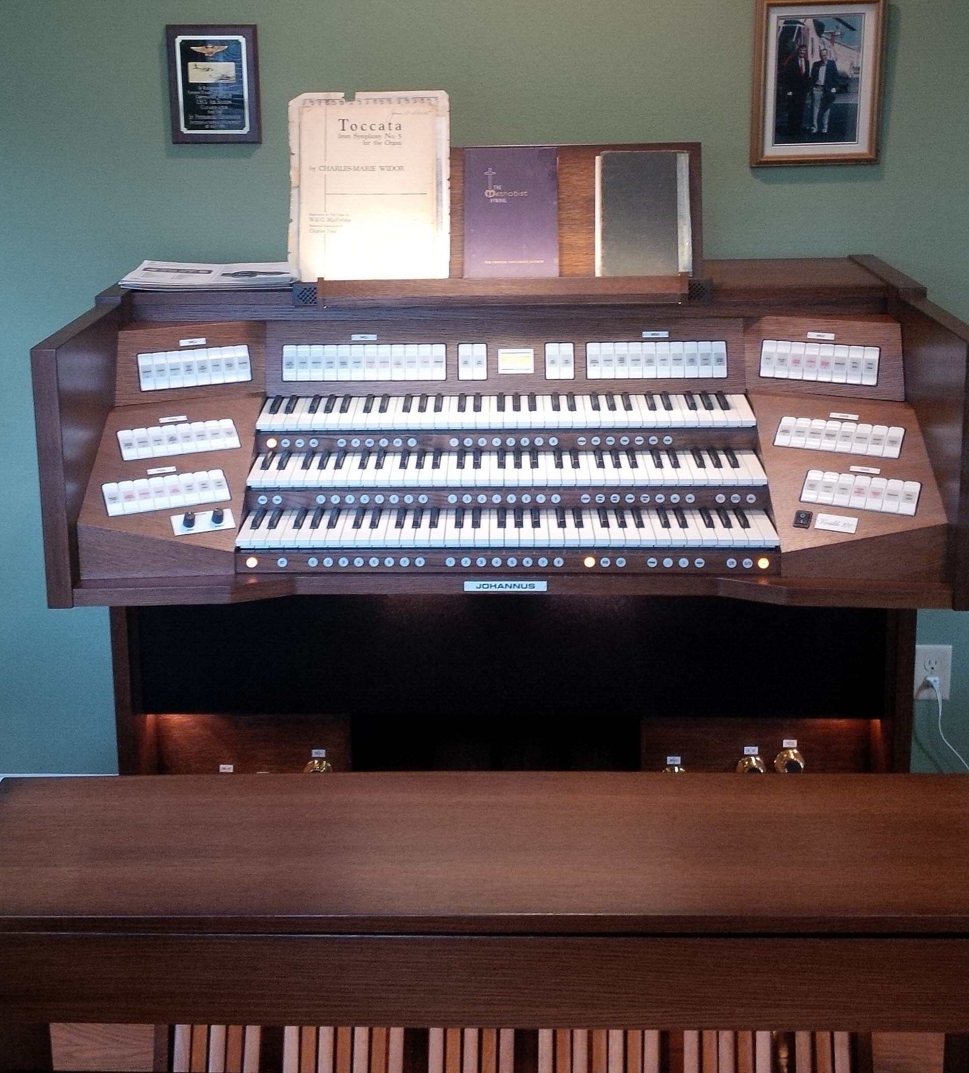 Vivaldi 370™ model digital organ, manufactured by Johannus Organs in 2015